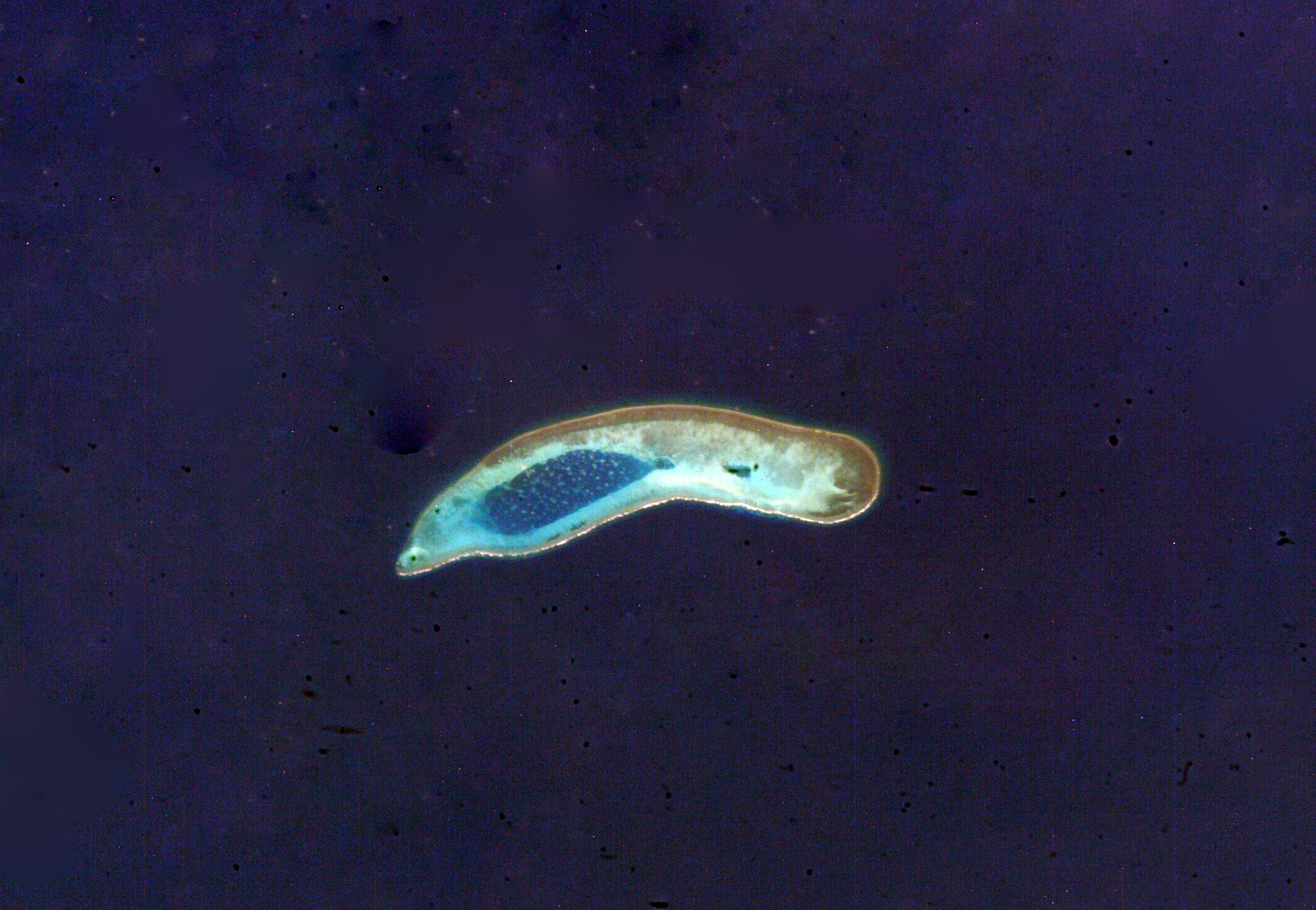 Vuladdore Reef is an atoll of Paracel Islands.